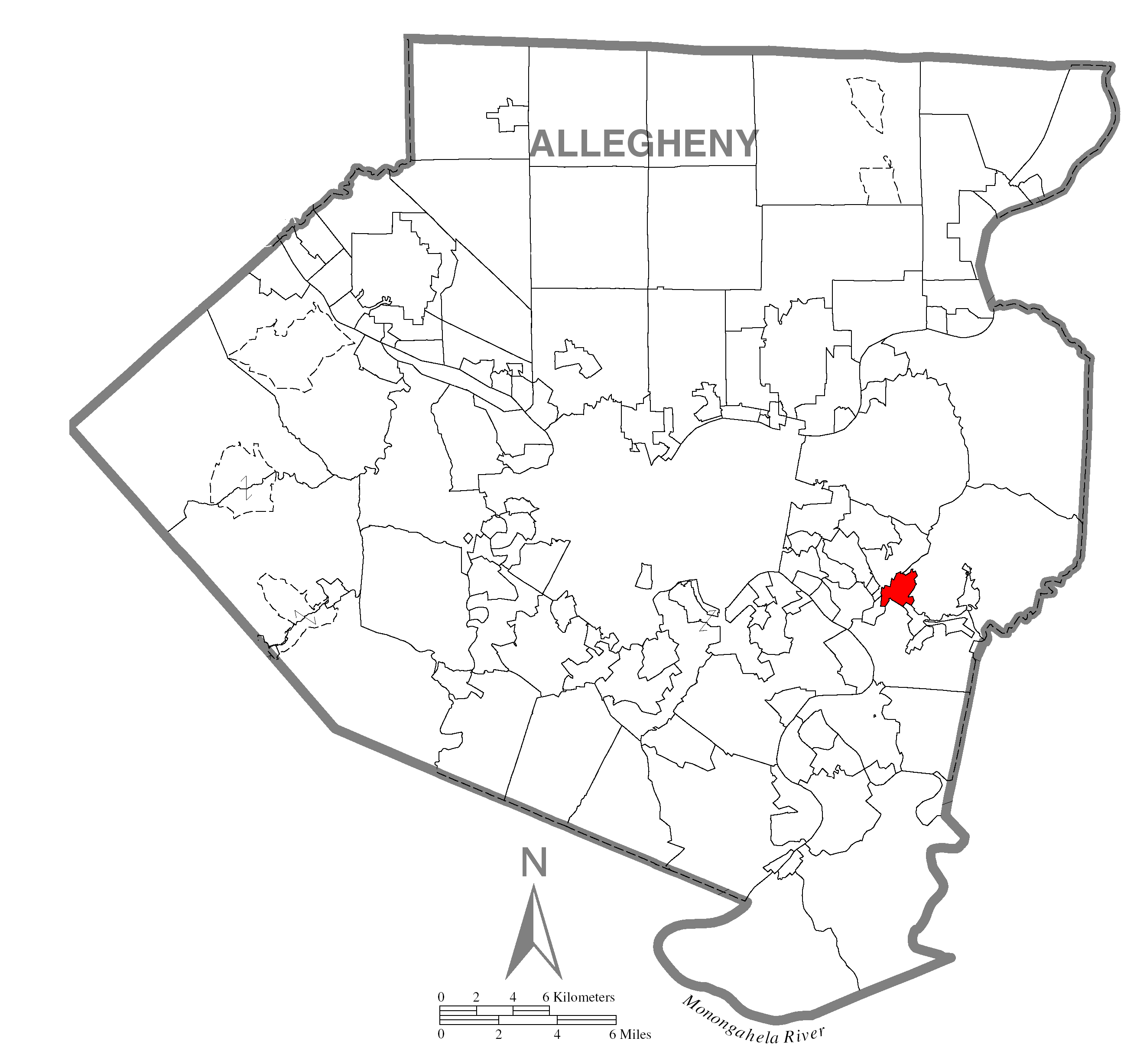 A map of Allegheny County showing Turtle Creek, Pennsylvania (alternate) highlighted on the map.